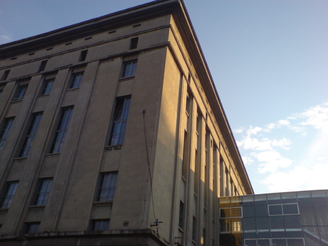 Berghain Berlin Techno Club